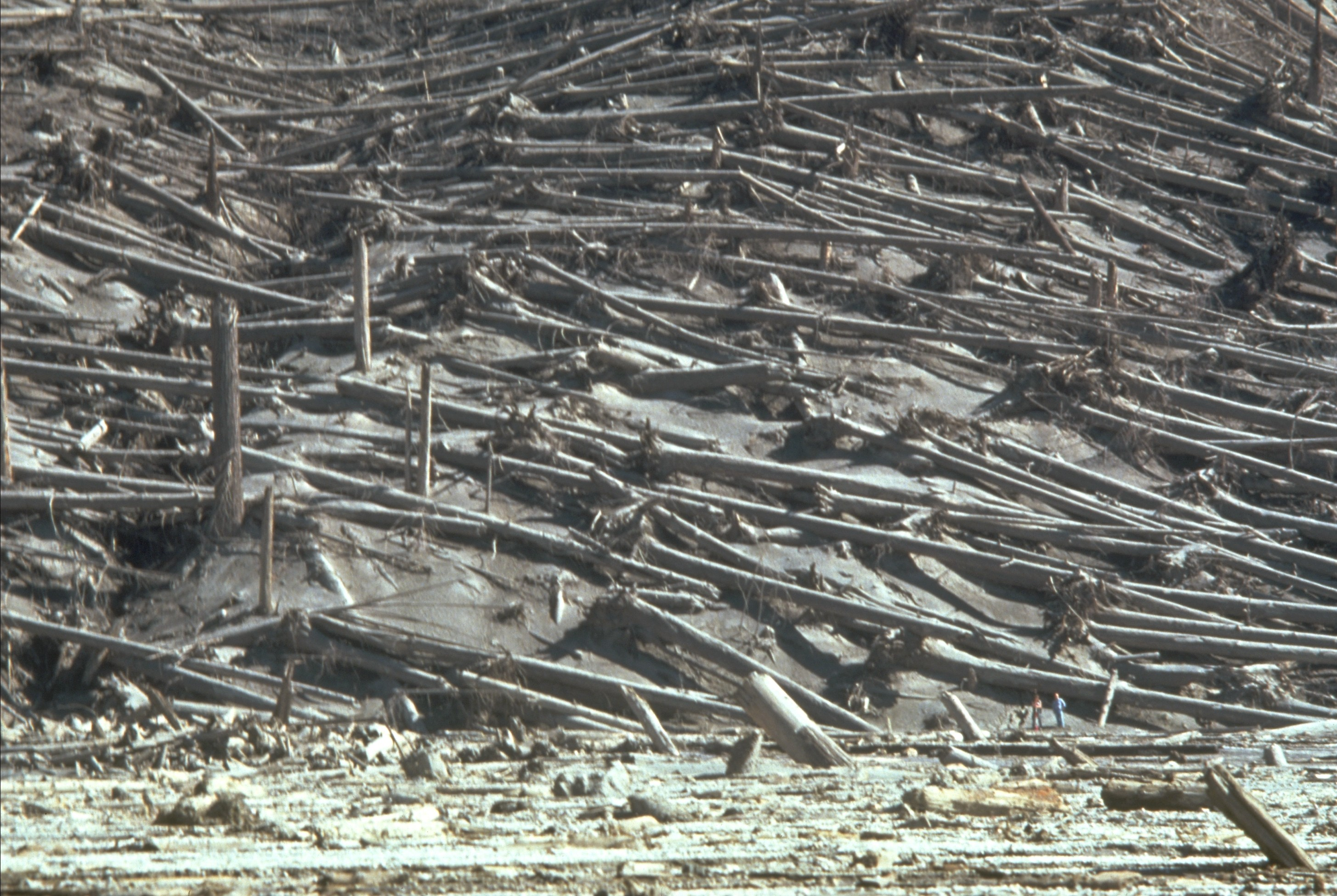 The slopes of Smith Creek valley, east of Mount St. Helens, show trees blown down by the May 18, 1980 lateral blast. Two U.S. Geological Survey scientists (lower right) give scale. The direction of the blast—shown here from left to right—is apparent in the alignment of the downed trees. Over four billion board feet of usable timber, enough to build 150,000 homes, was damaged or destroyed.